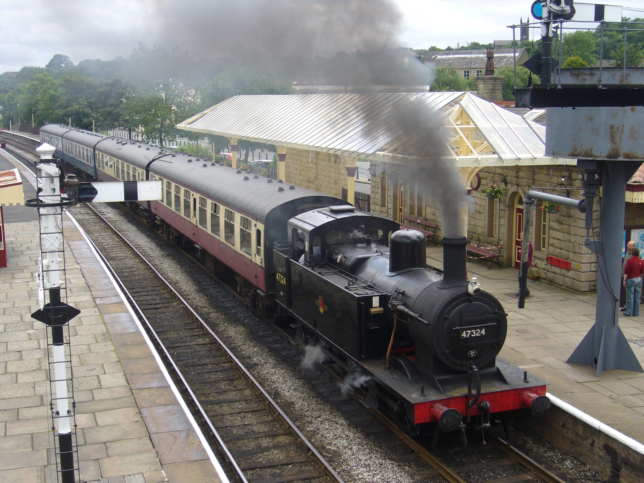 The East Lancashire Railway station at Ramsbottom. The locomotive is a Class 3F "Jinty" hauling the 16:02 train to Rawtenstall.